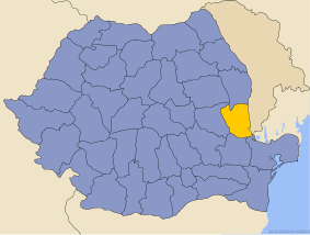 Location of Galați County in Romania.